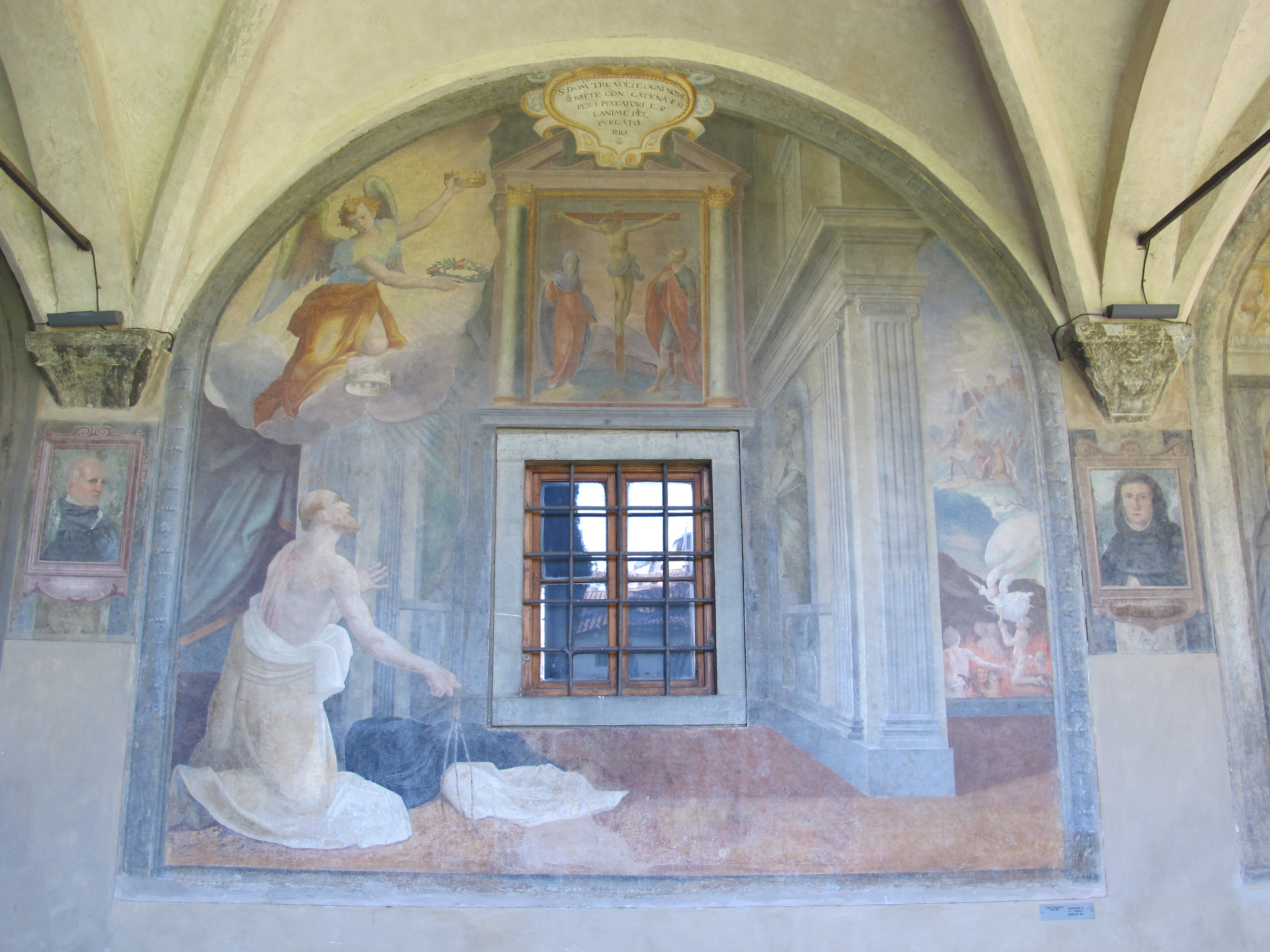 Frescos in the Chiostro Grande in Santa Maria Novella